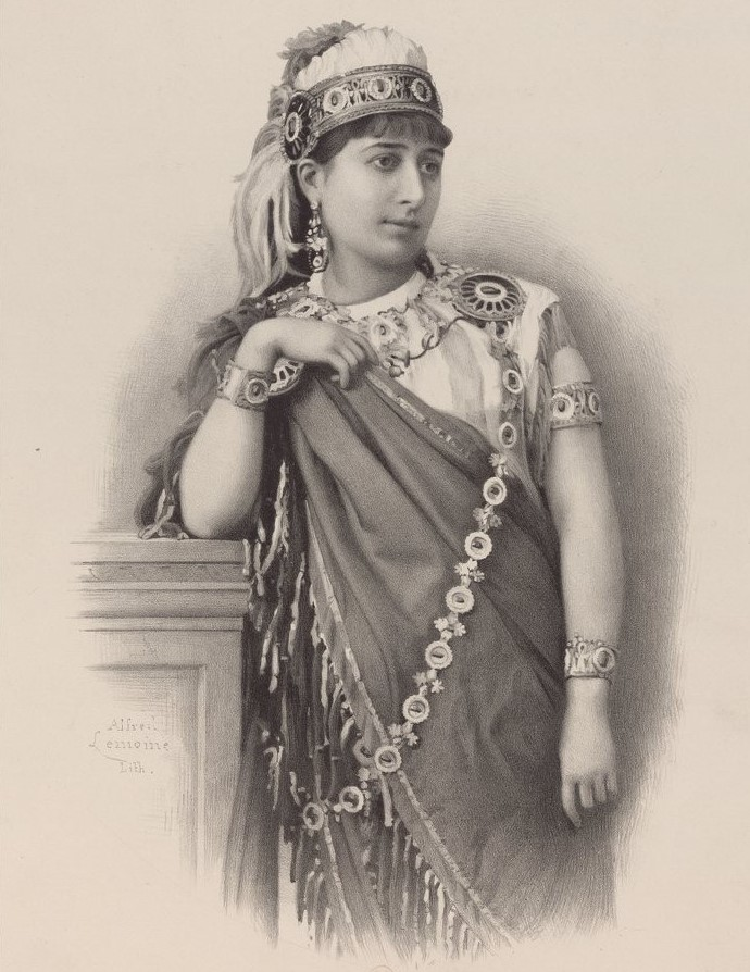 French soprano Émilie Ambre in the title role of Aida at the Paris Opera